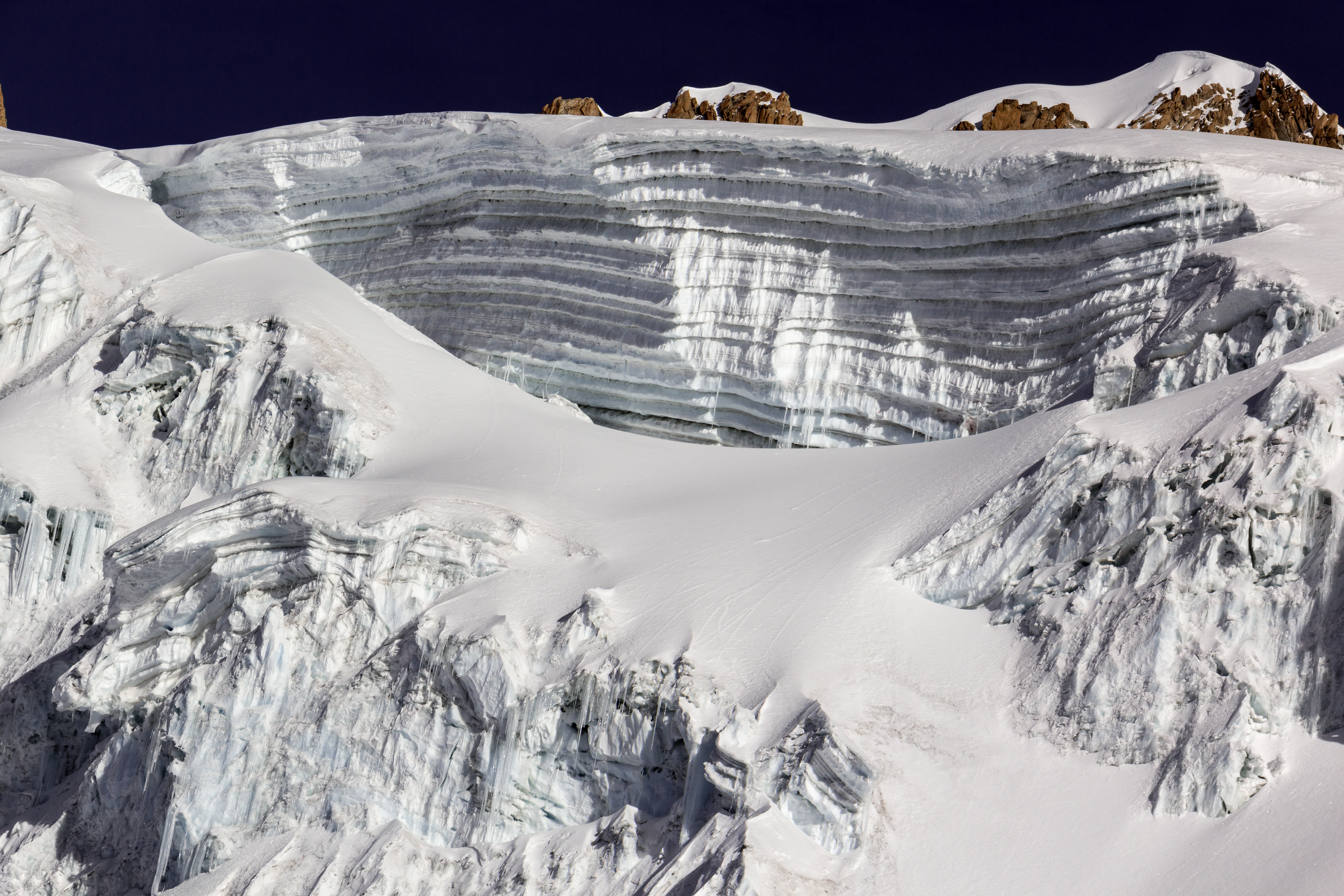 Glaciers at Huayna Potosi